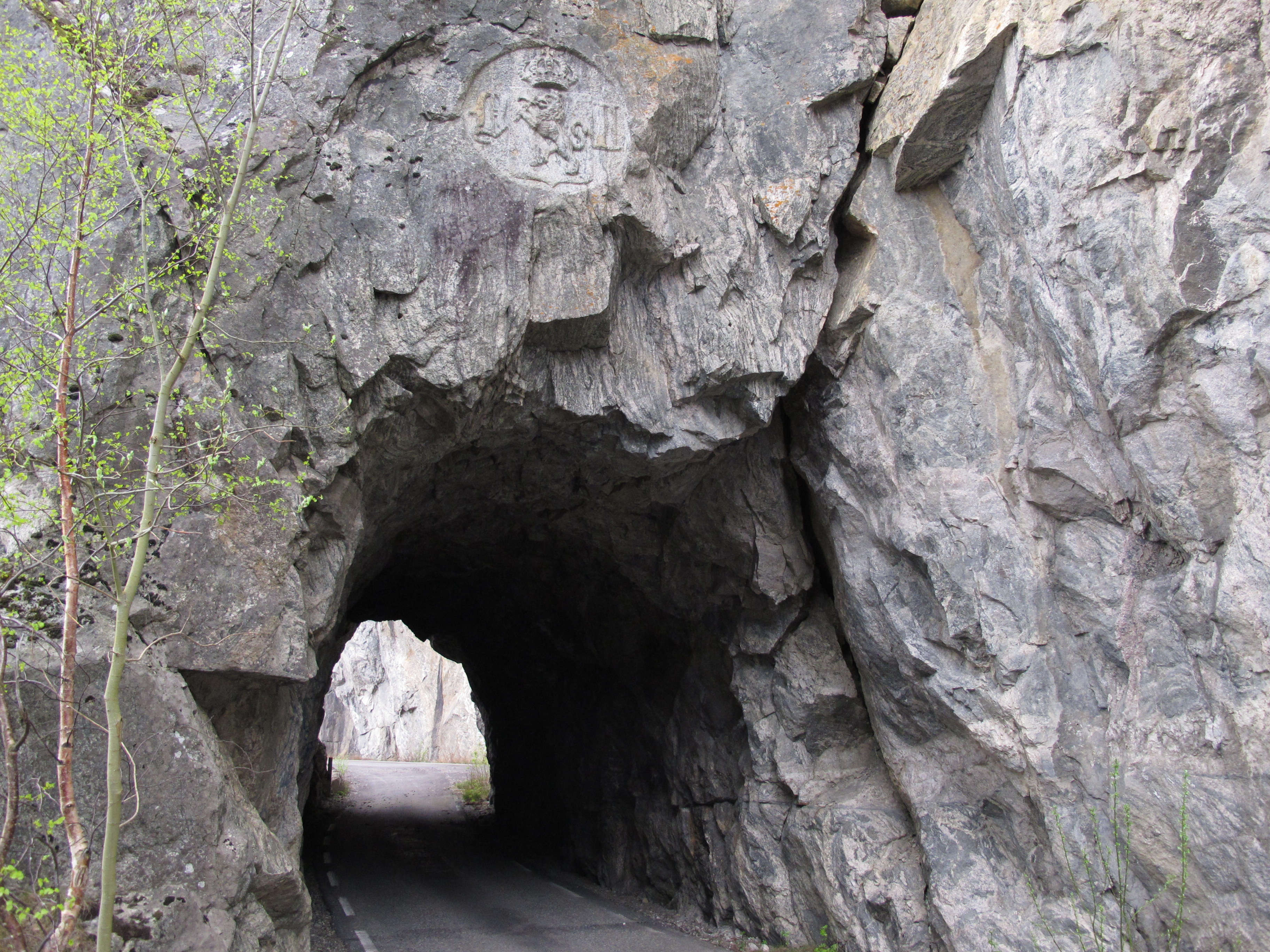 The oldest road tunnel in Norway, situated along the Eidfjord Lake. Built in 1891 as the first road tunnel in Norway. King Oscar II symbol engraved in the rock face above the tunnel. Today part of a walk/bicycle path on the outside of todays ROUTE 7 tunnel that opened in 1976.